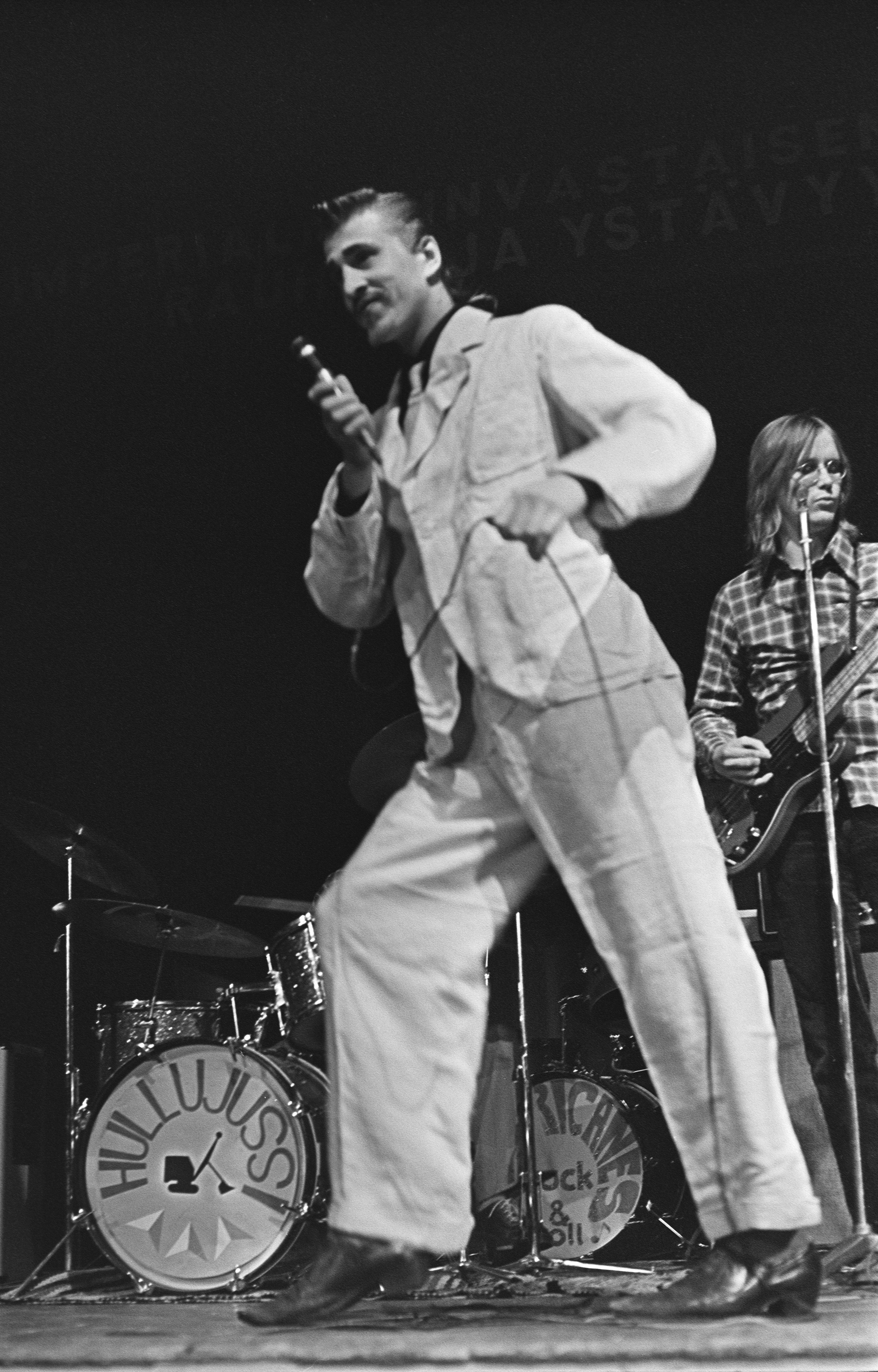 Photograph of the Finnish musician Erik Kristian “Eeki” Mantere (1949–2007), appearing as Viktor Kalborrek of Hullujussi band at Vanha Ylioppilastalo, Helsinki